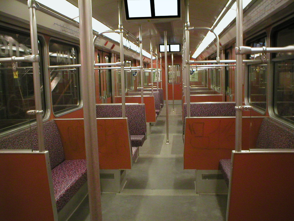 The Berlin U-Bahn train type F87, interior